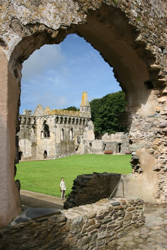 The Bishop's Palace in St. David's, Wales